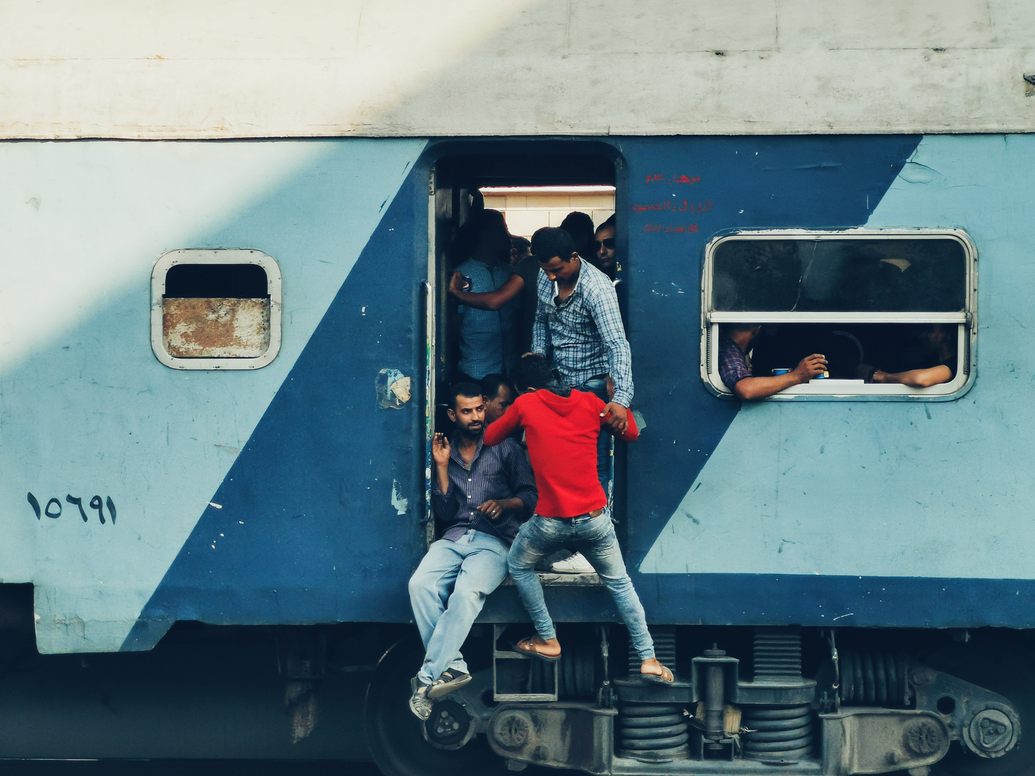 catching the train This is an image with the theme "Africa on the Move or Transport" from: Egypt